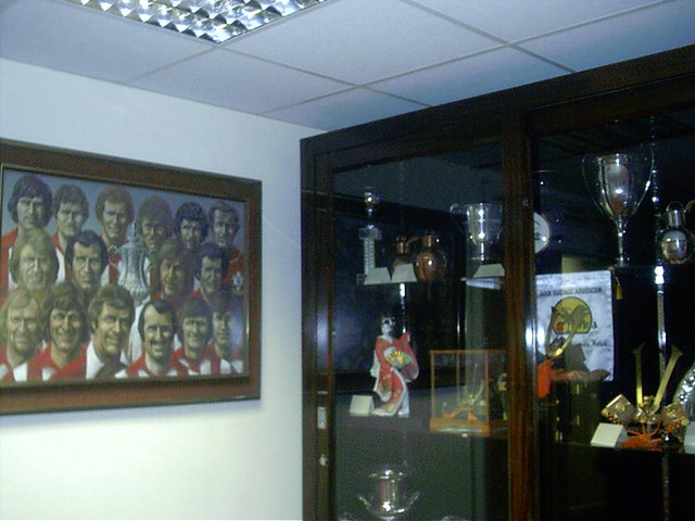 The trophy cabinet inside St. Mary's Stadium, home of Southampton Football Club.